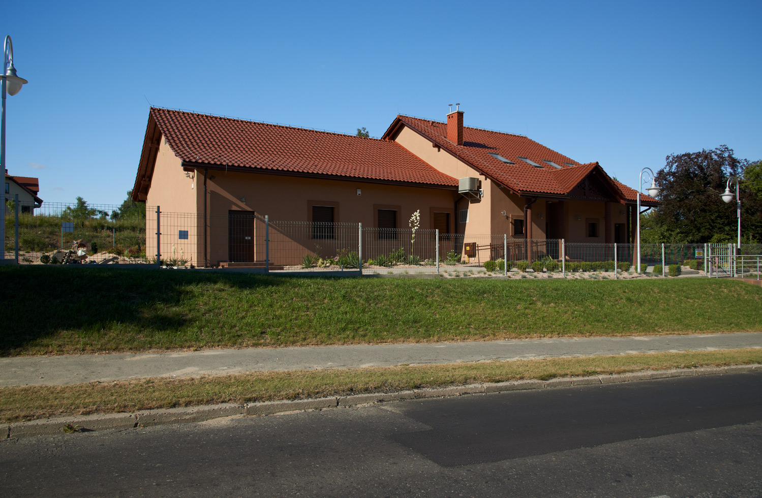 Kingdom Hall Jehovah's Witnesses in Sobótka, Poland